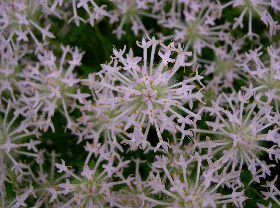 Pimelea sp., place: Osaka-fu Japan.